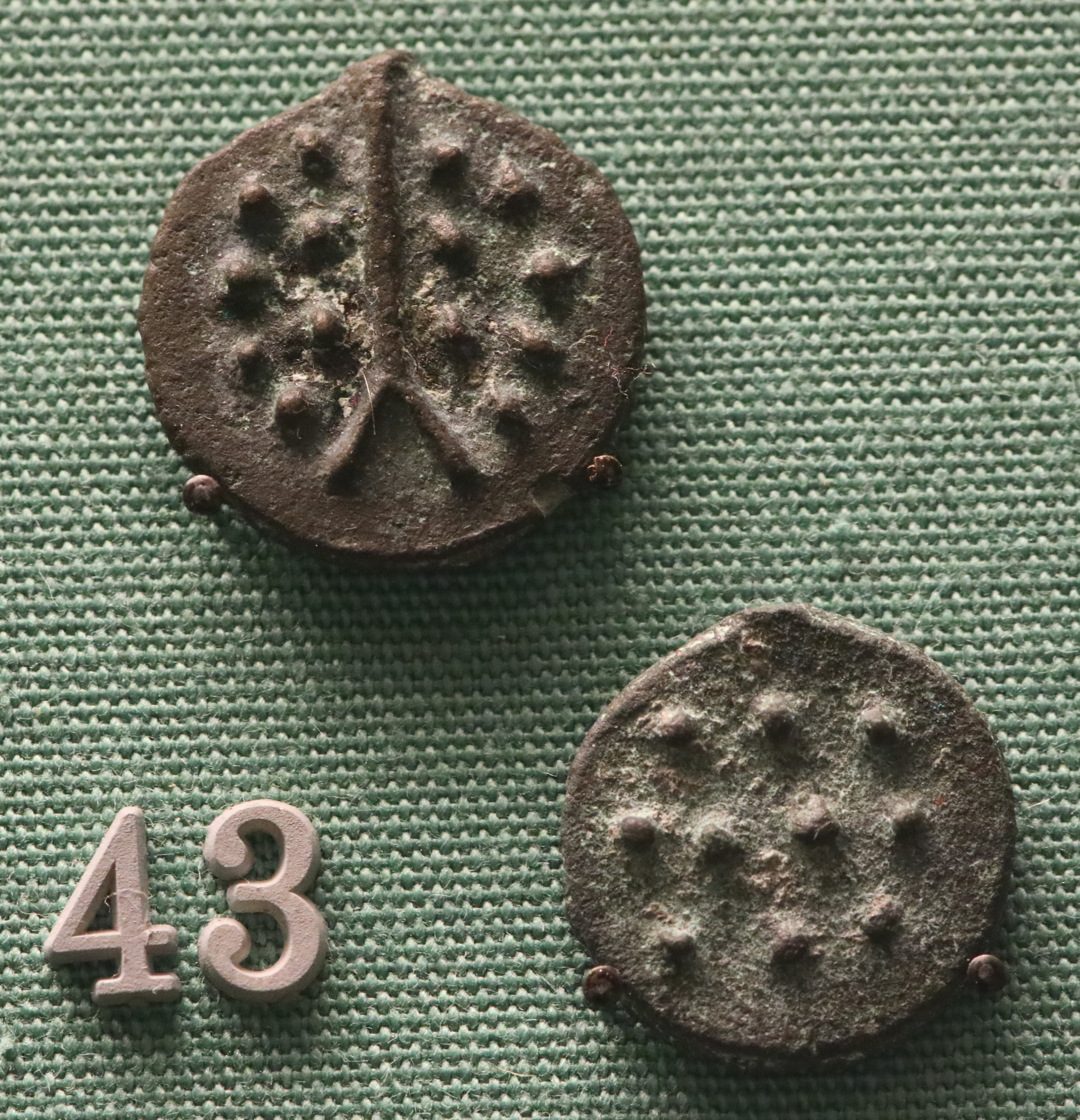 Hengistbury Head cast coins in the british museum